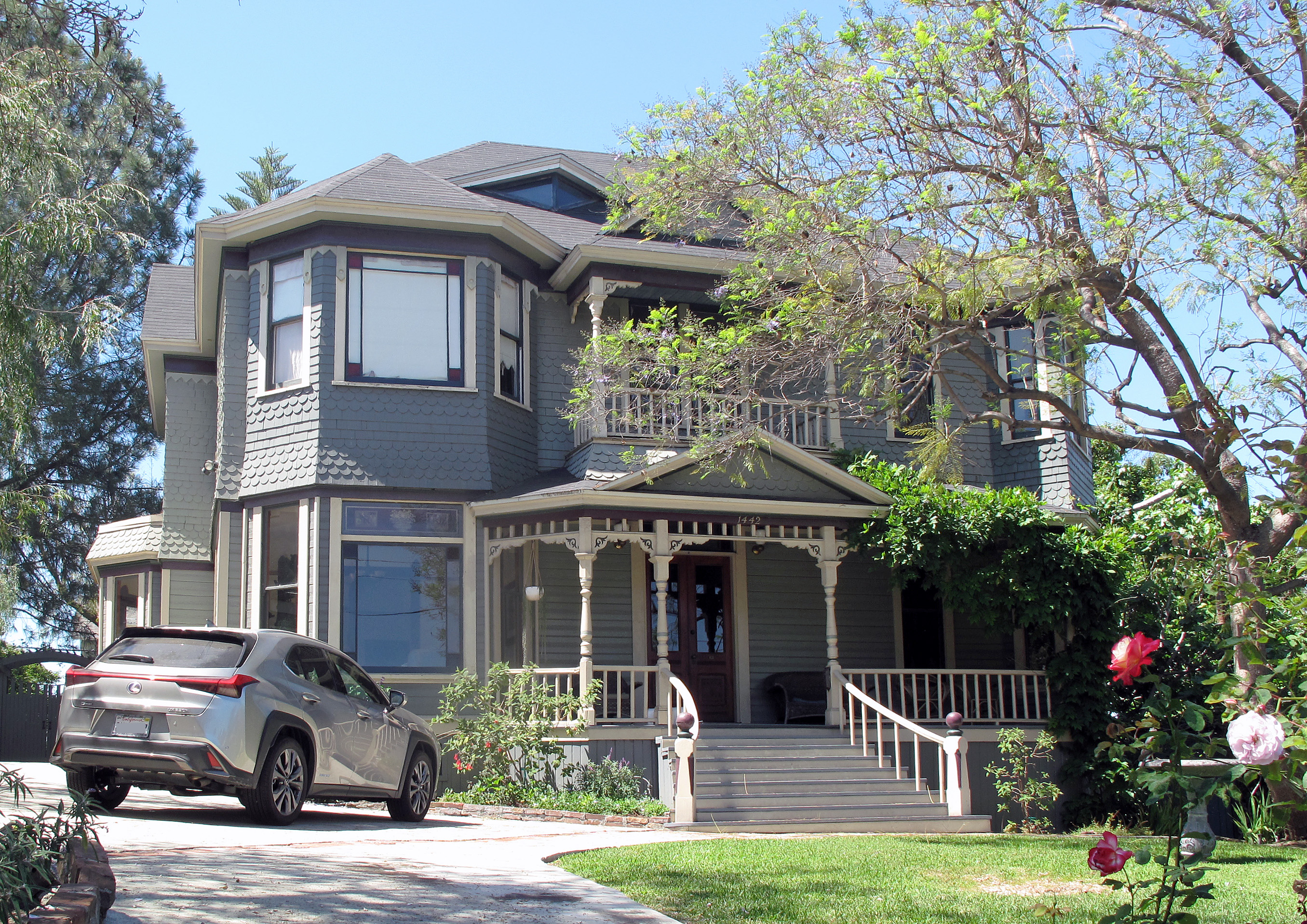 Eastlake Inn, 1093 W. Edgeware Rd. / 1442 Kellam Ave, Los Angeles. Los Angeles Historic-Cultural Monument #321.